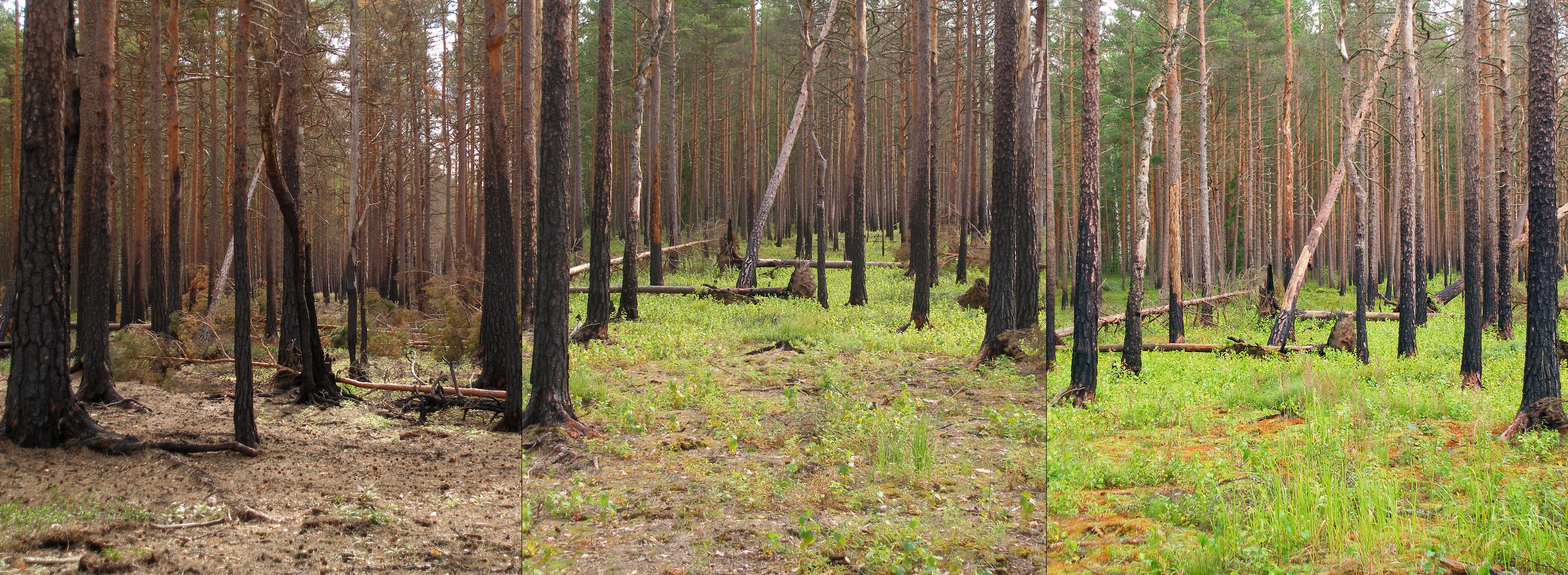 Ecological succession after wildfire in boreal pine forest (next to Hara Bog, Lahemaa National Park, Estonia): three photos of the same place, taken one, two and three years after the fire. The fire occurred around 20-22 August 2006 [1].